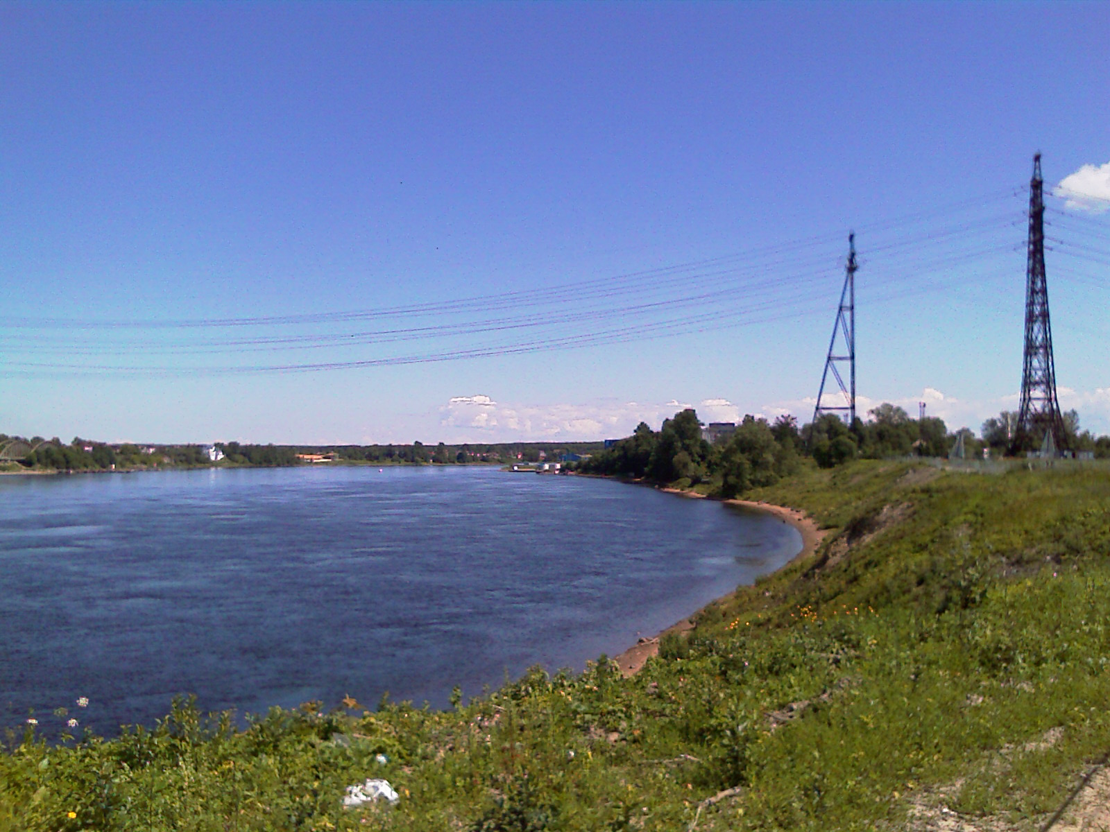 Krivoe Koleno of Neva River, St. Petersburg